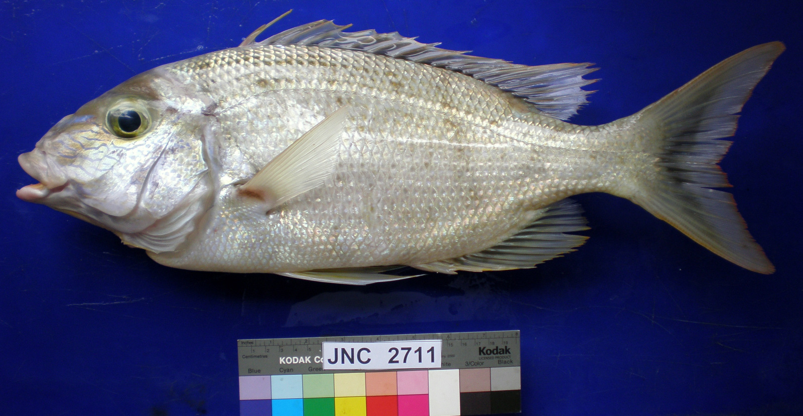 Gymnocranius grandoculis (Valenciennes, 1830) from off New Caledonia. Blue-lined large-eye bream. Parasitological number MNHN JNC2711. Collected near Récif Kué, off Nouméa, New Caledonia, 23 October 2008. Fork Length 482 mm, Weight 2100 g.